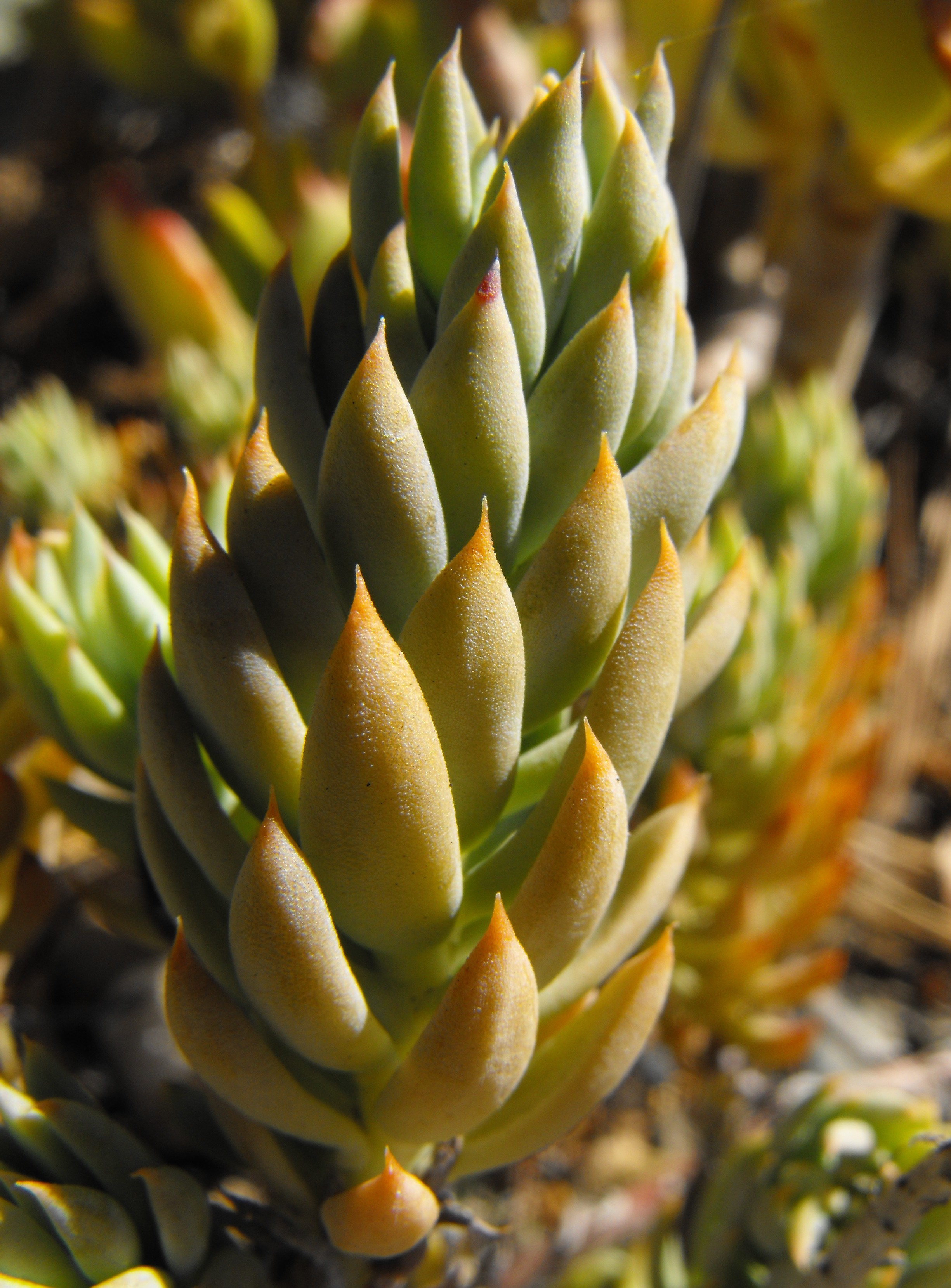 Delosperma ashtonii at the Palomar College Arboretum, San Marcos, California, USA. Identified by sign.